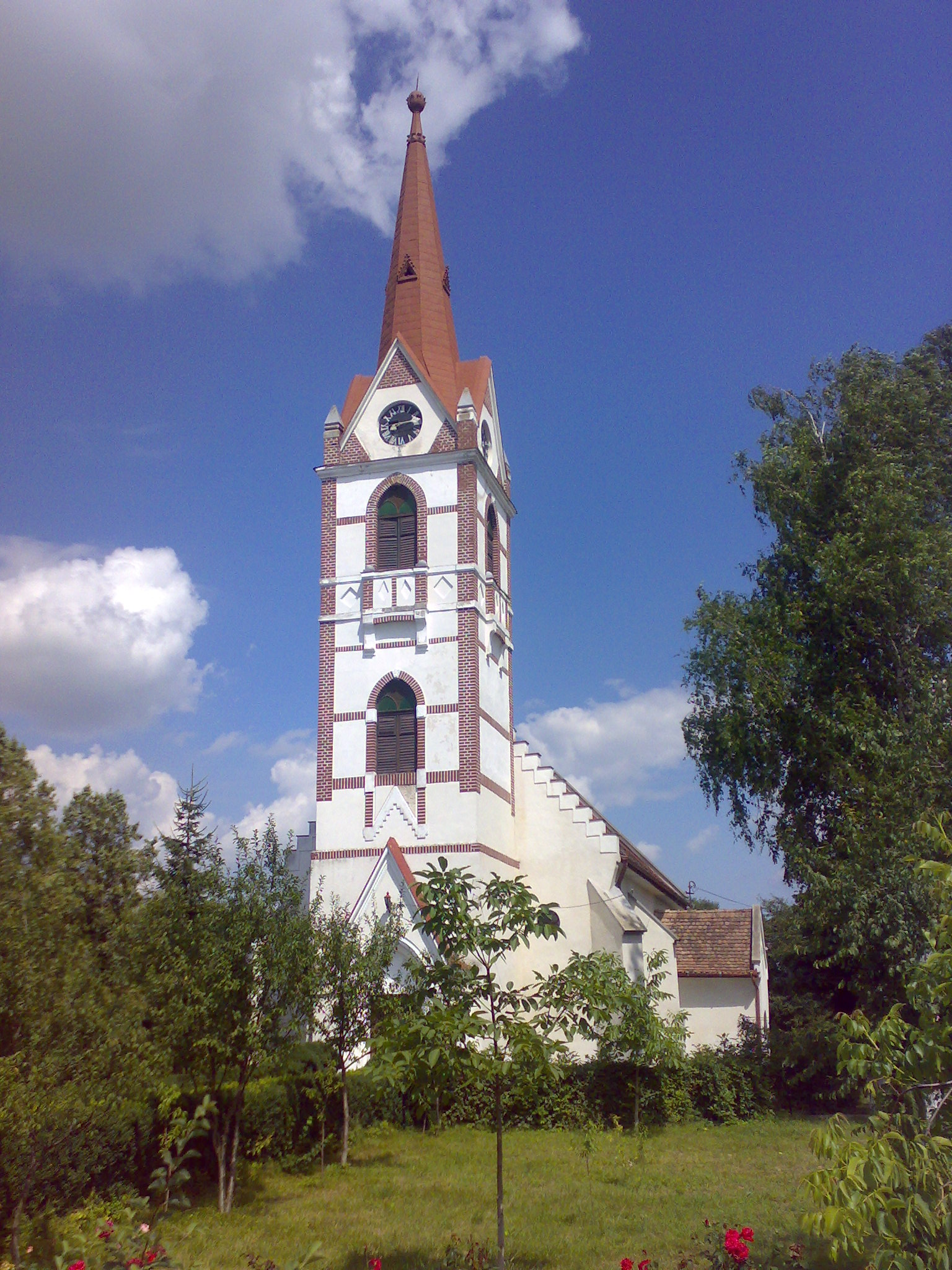 The Reformed church from the garden.